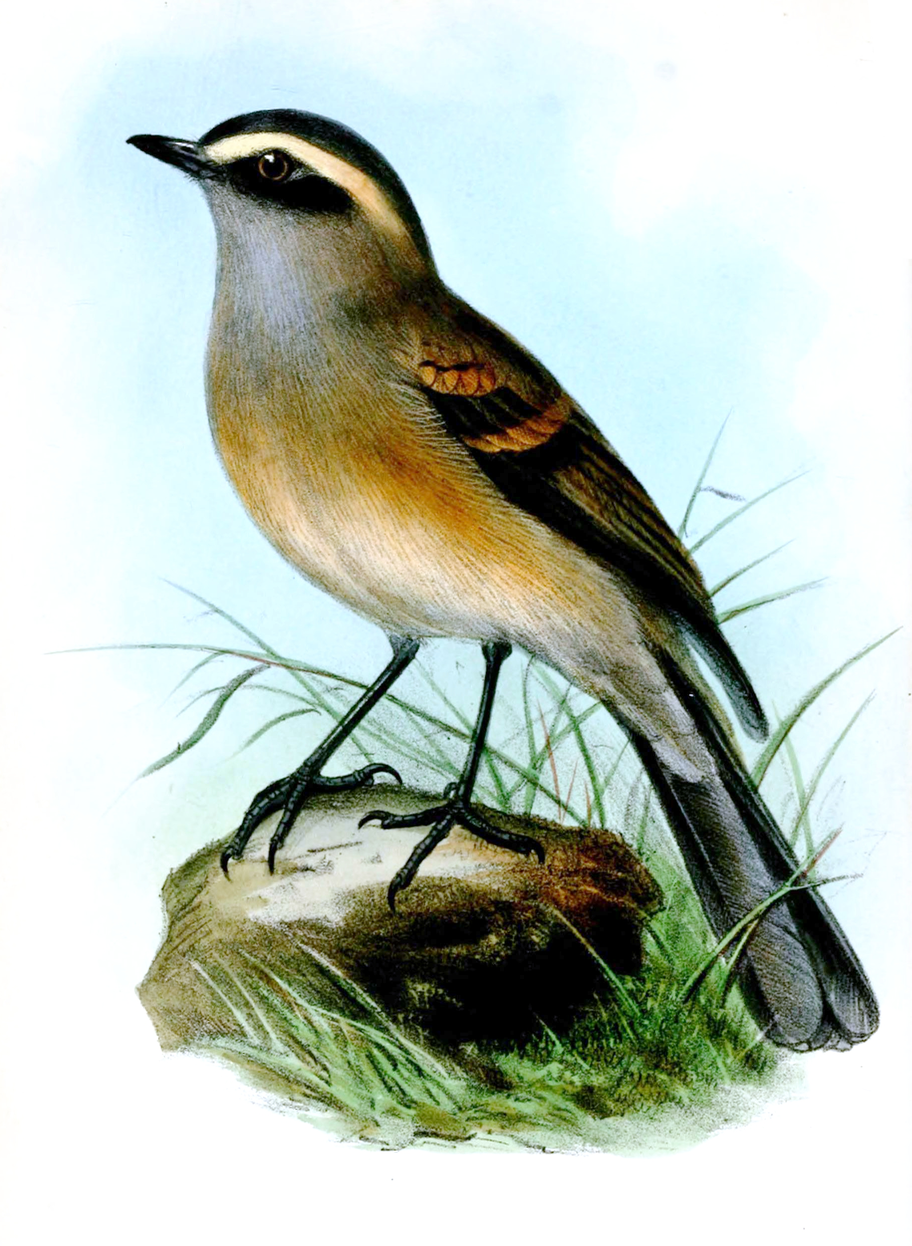 Ochthoeca fumicolor